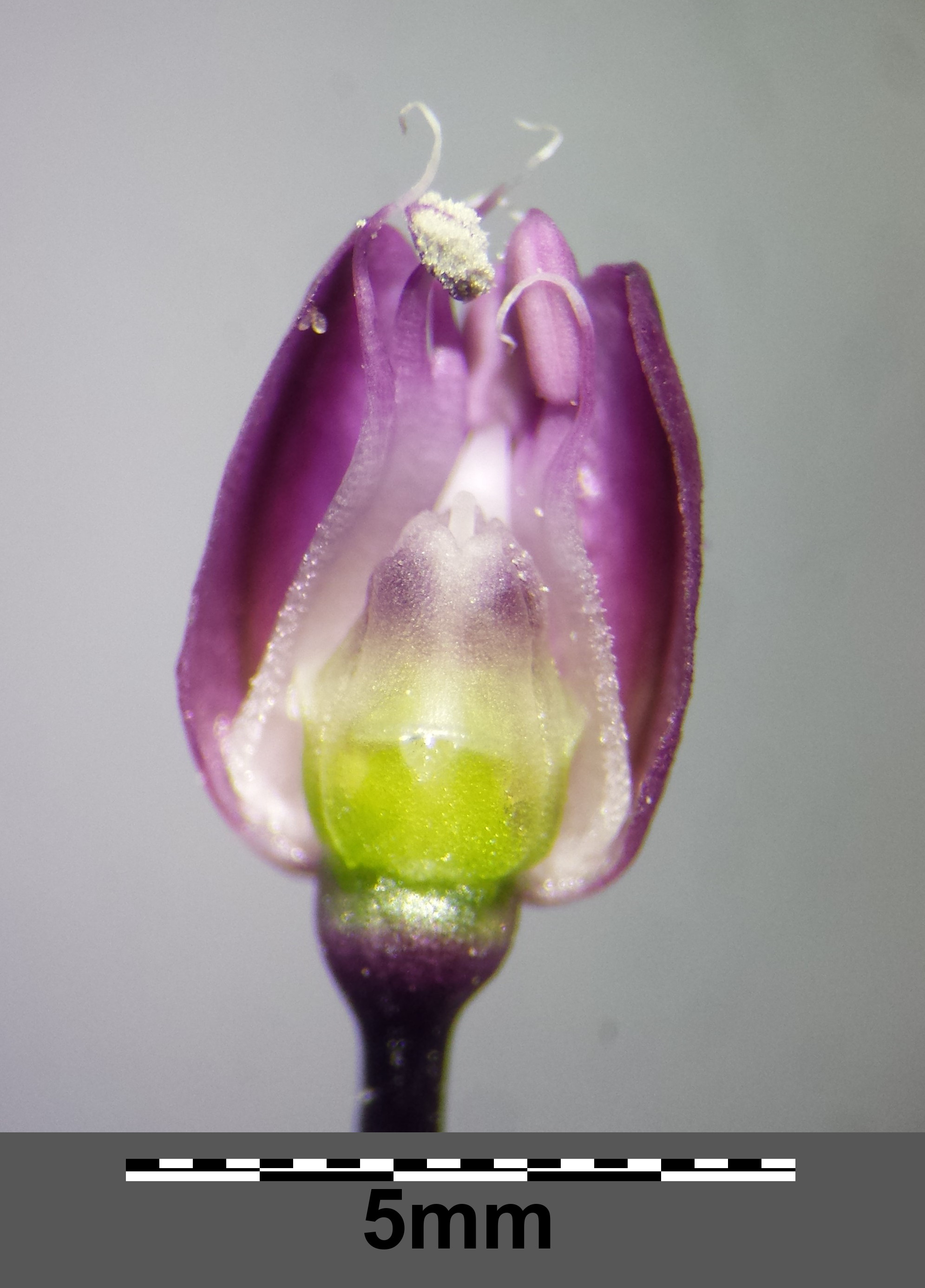 Flower opened Taxonym: Allium scorodoprasum ss Fischer et al. EfÖLS 2008 ISBN 978-3-85474-187-9 Location: Schwarze Lacke, Vienna-Floridsdorf - ca. 160 m a.s.l. Habitat: dry meadow